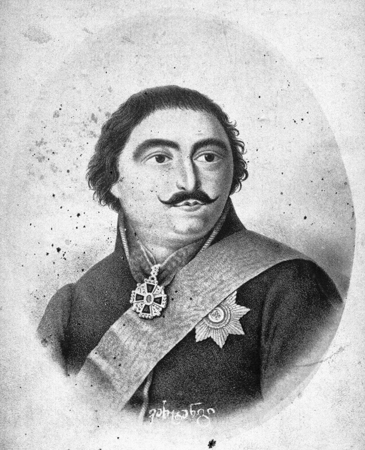 Vakhtang-Almaskhan, Prince Royal of Georgia (1761–1814), son of King Erekle II. A portrait by the anonymous early 19th-century painter photographed by Alexander Roinashvili (1846–1898).